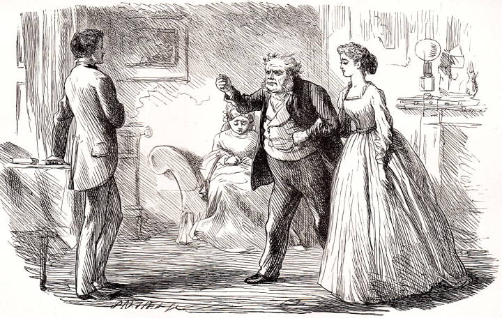 Mr Boffin's diatribe after learning of Rokemith's proposal to Bella.